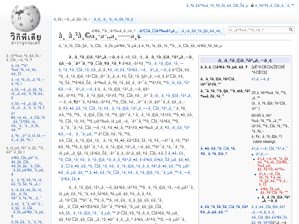 Screenshot of mojibake caused by viewing UTF-8 encoded Thai Wikipedia article ภาษาไทย using ISO-8859-1 encoding